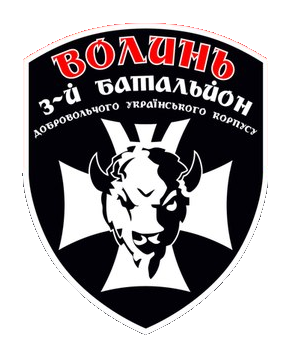 Sleeve patch of the 3rd Replacement Battalion for the Ukrainian Volunteer Corps (UVC)